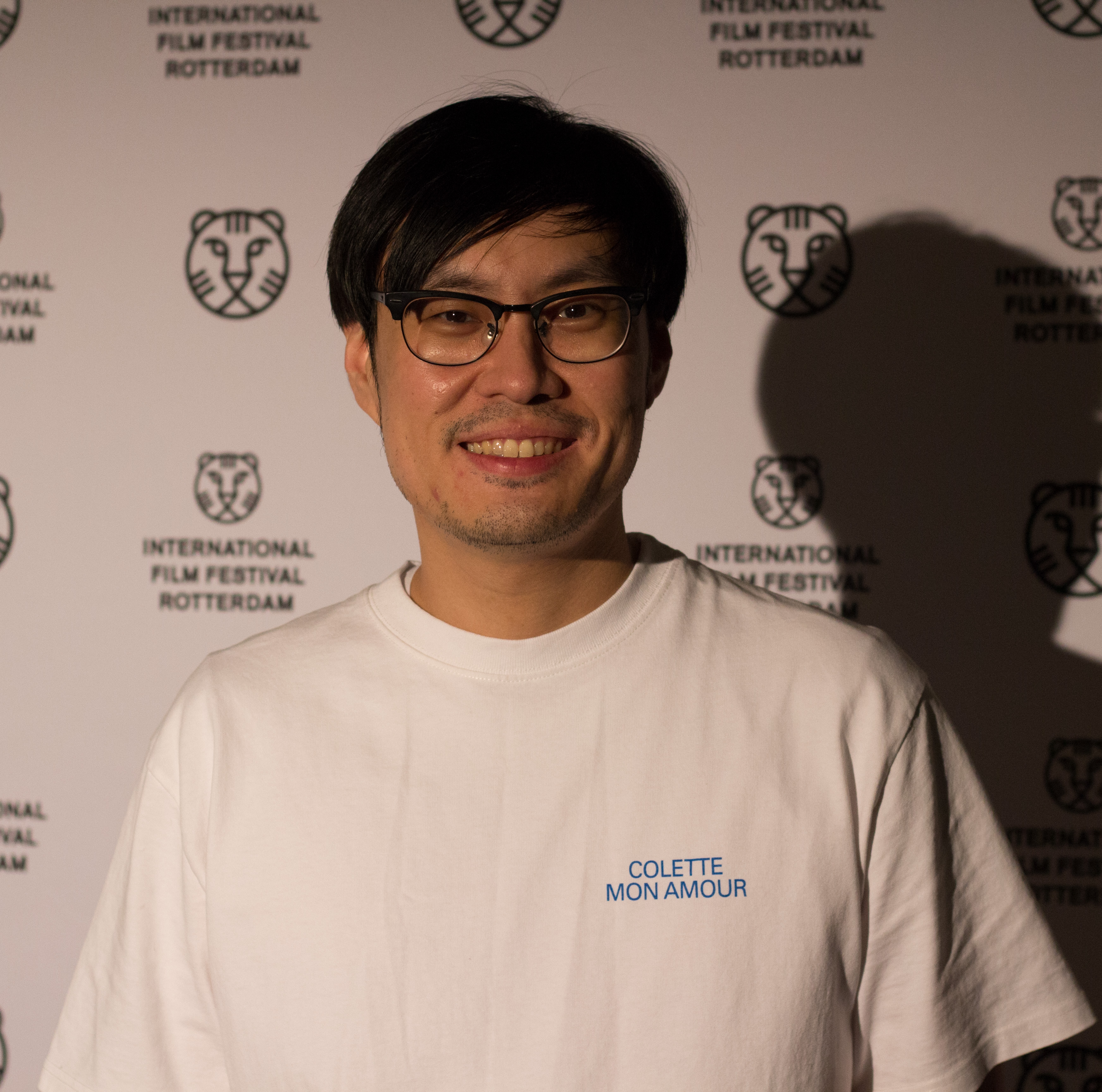 Nawapol Thamrongrattanarit at the IFFR 2020